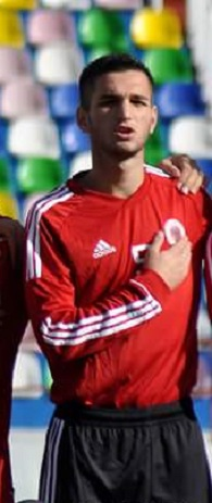 elis doksani with albania national team